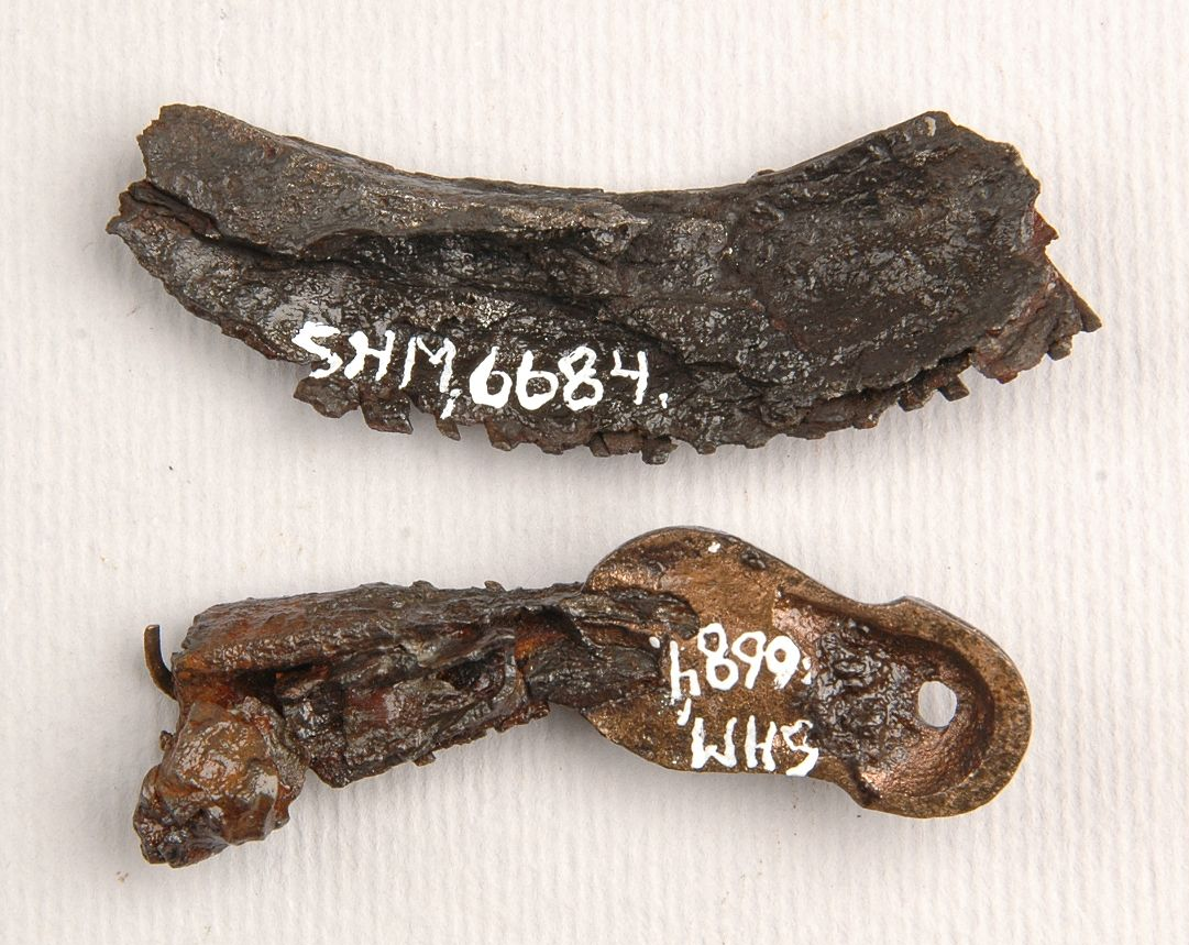 Fragmentary helmet eyebrow from Hellvi, Gotland